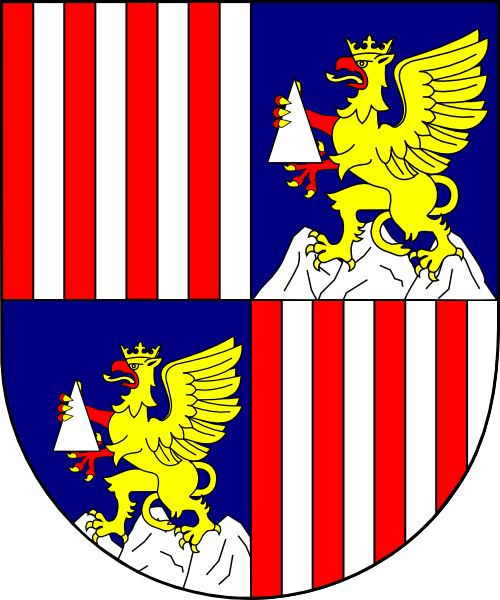 Coat of arms (shield only) of Johann Prokop von Schaffgotsch, bishop of České Budějovice, Czech Republic (1785 - 1813).